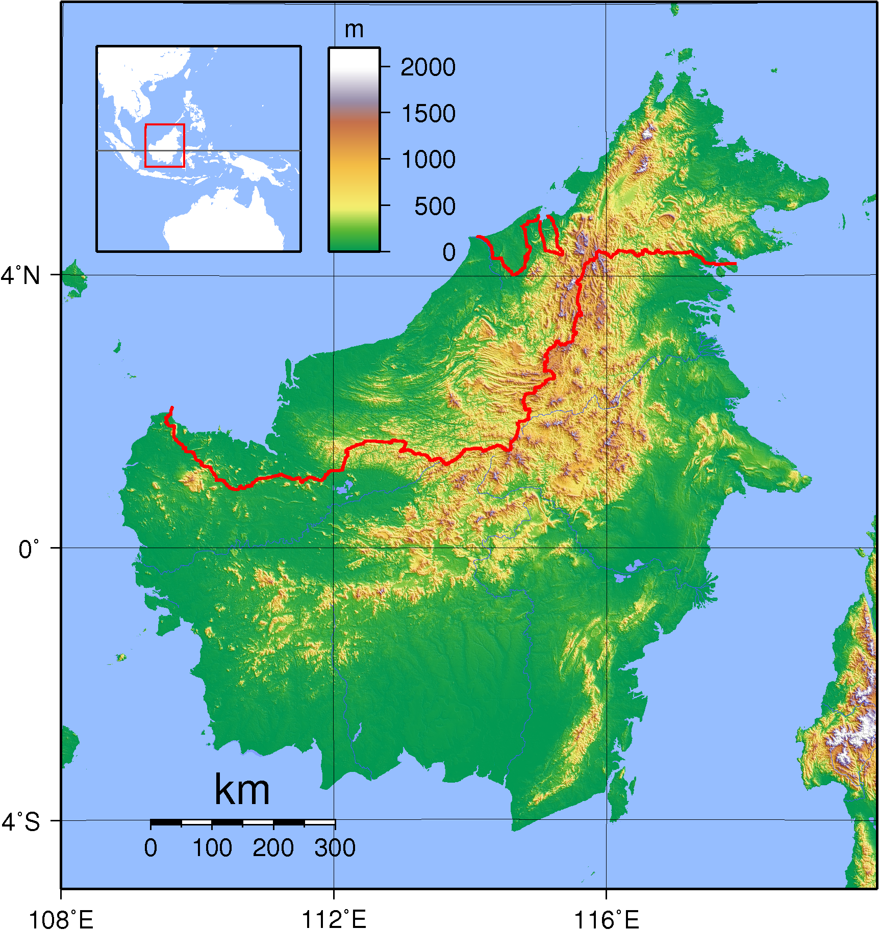 Relief (hypsometric) map of Borneo. Red lines represent national borders between Indonesia (south), Malaysia (north), and Brunei (top north). Created with GMT from publicly released GLOBE data[1]. For locator version, see Image:Borneo Locator Topography.png.